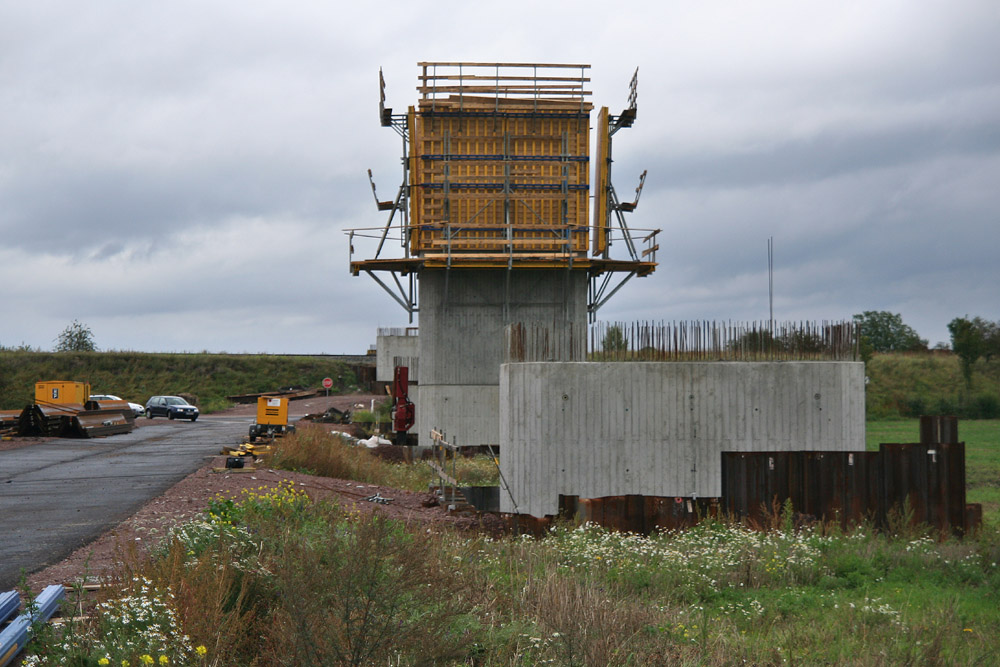 Piers of the Saale-Elster Viaduct under construction. This picture has been taken not far from the eastern abutment of the bridge.